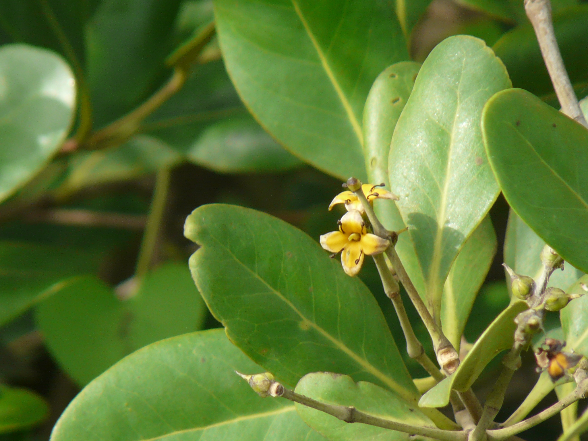 Acanthaceae (acanthus or ruellia family) » Avicennia officinalis av-ih-SEN-ee-uh -- named for Avicinna (Ibn Sina), Persian physician-philosopher oh-fiss-ih-NAH-liss -- meaning, official (used in pharmacological sense) commonly known as: Indian mangrove, white mangrove • Bengali: বীনা bina • Hindi: bina • Kannada: ipati, uppati • Konkani: upati • Malayalam: ഒറയി orayi, ഉപ്പട്ടി uppatti • Marathi: तवीर tavir, तिवर tivar • Sanskrit: सागरोद्भुतः sagarodbhutah, सागरोदुर्ग sagarodurga, तिमिरः timirah • Tamil: வெண்கண்டல் venkantal • Telugu: తెల్లమడచెట్టు tellamadacettu Distribution: coasts of southern Asia to Australia and Oceania References: Flowers of India • The Trees of Mumbai by M Almeida & N Chaturvedi • Floristic Survey